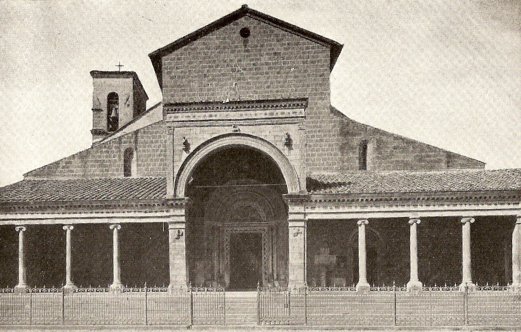 The façade of the Cathedral of Civita Castellana.